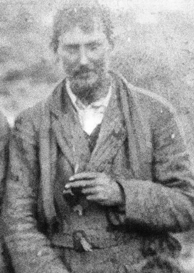 Expedition to Everest in 1921. Geaorge Mallory